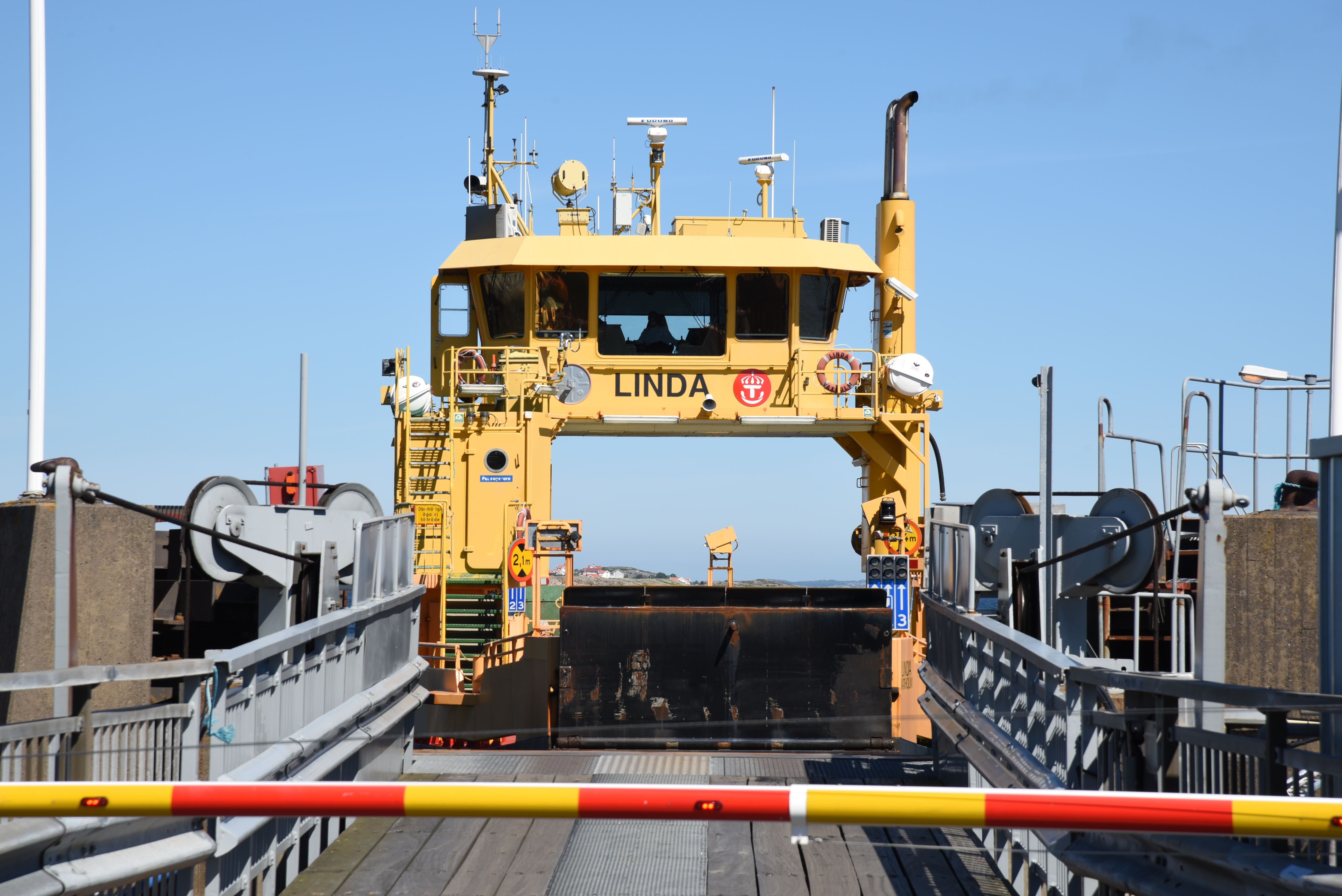 The ferry 302 Linda on Nordleden in Öckerö municipality